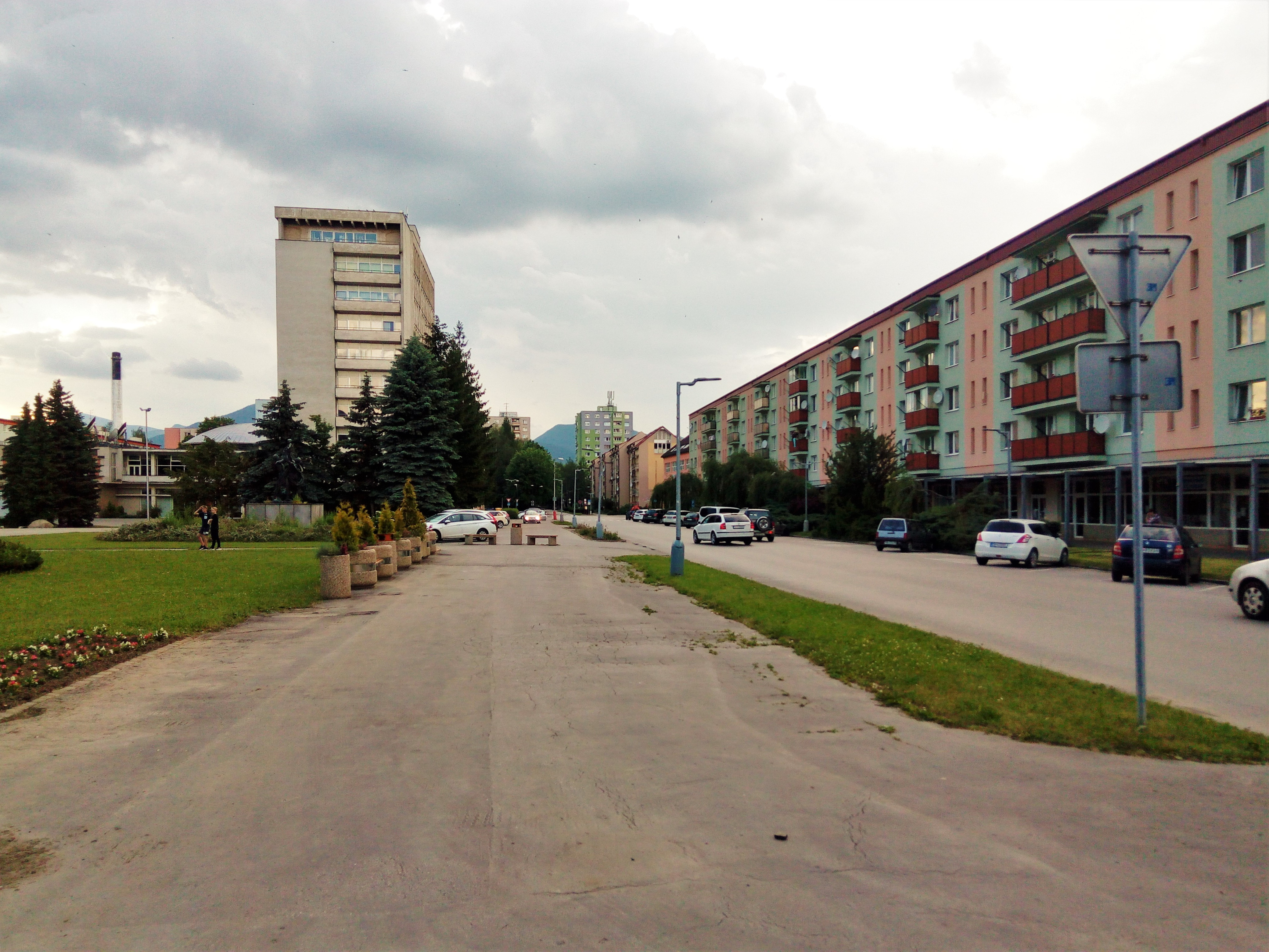 Námestie slobody (Freedom Square) in the Velký Bysterec neighbourhood in Dolný Kubín, Slovakia.